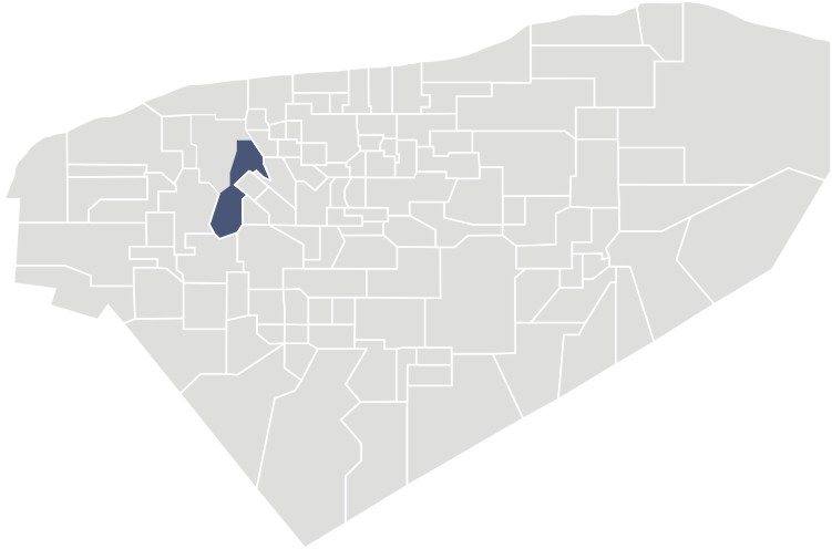 Map of the Fourth Federal Electoral District of the State of Yucatan, México.